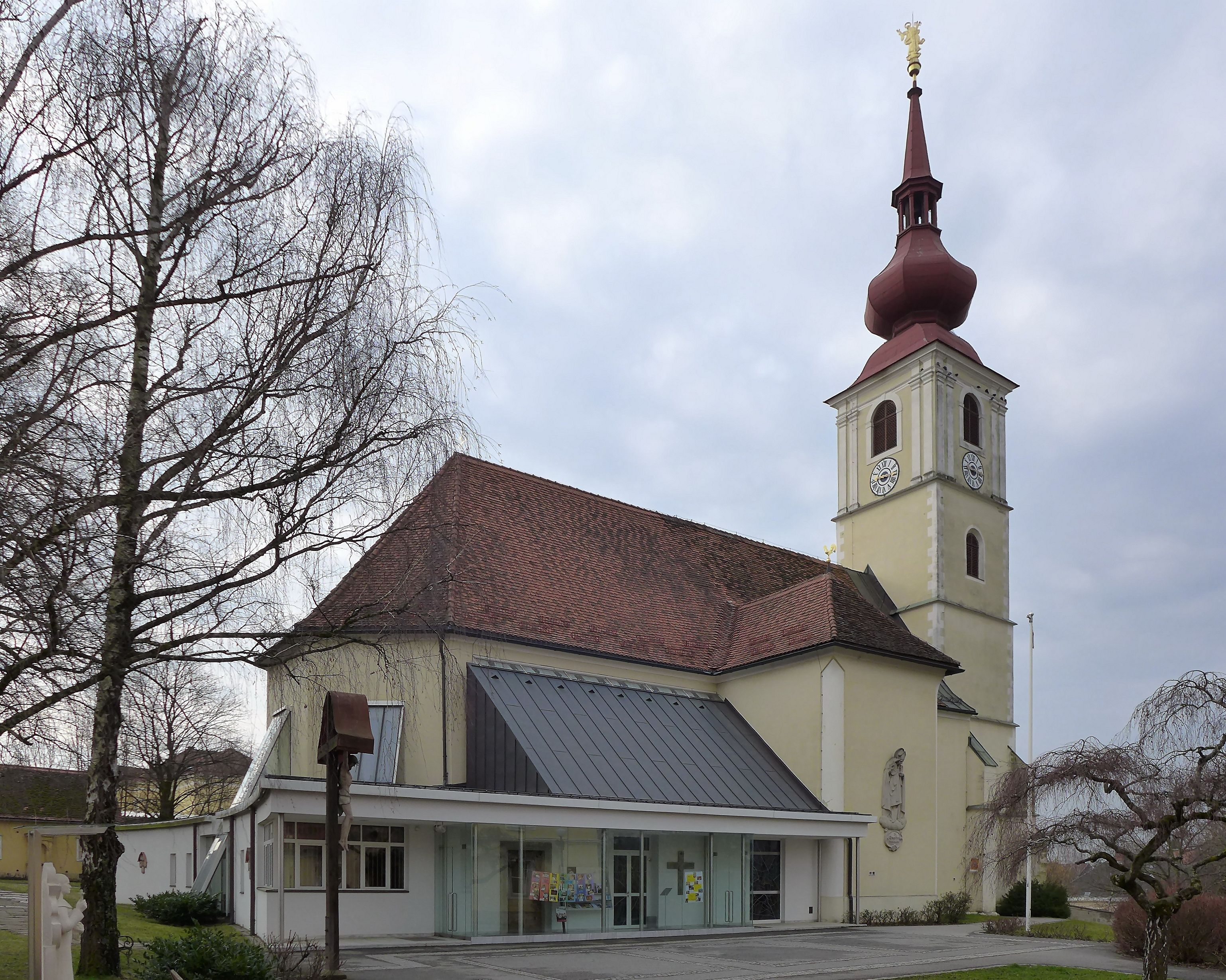 Parish church Graz-St. Peter, Austria